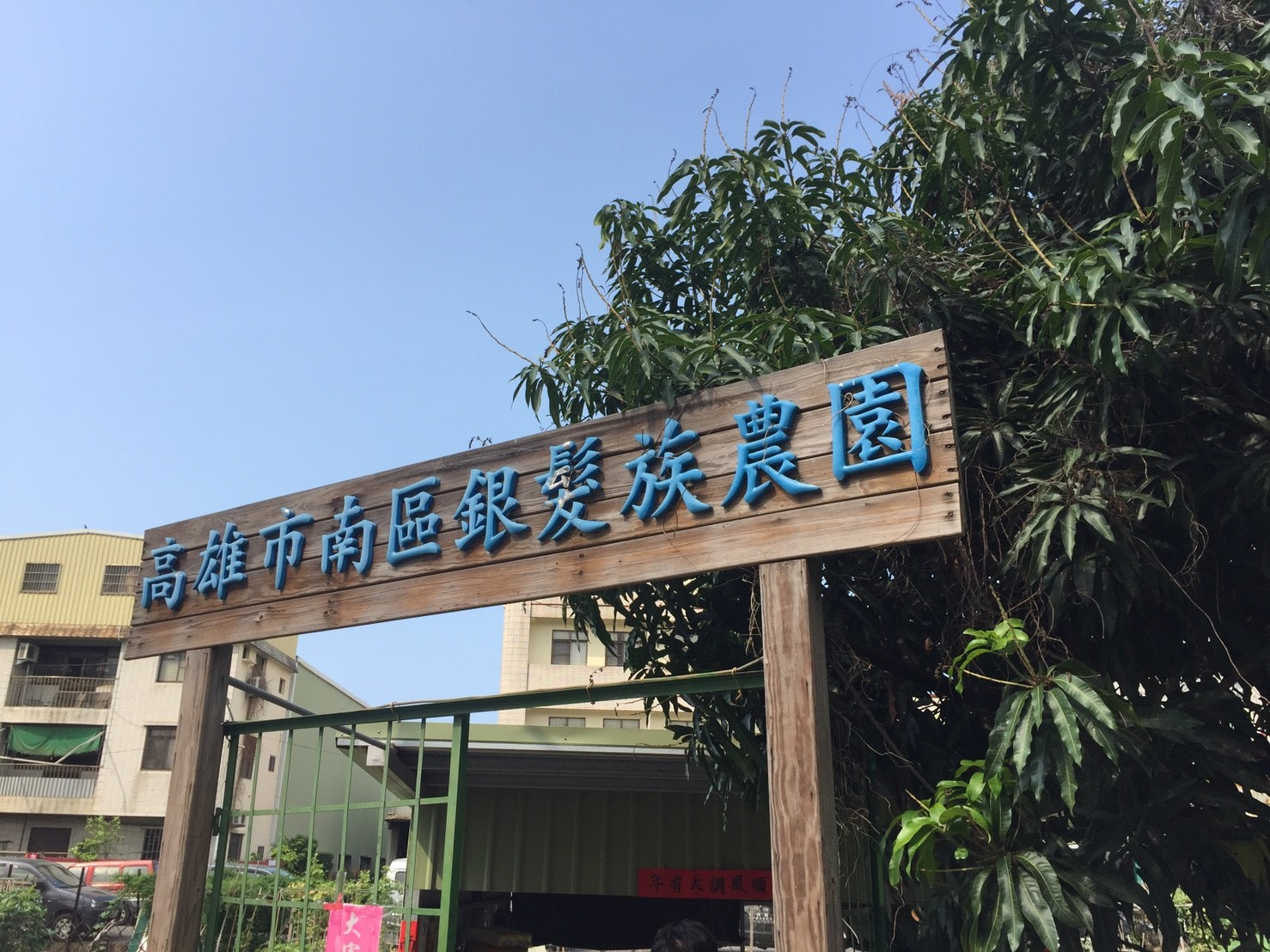 銀髮農園正門口